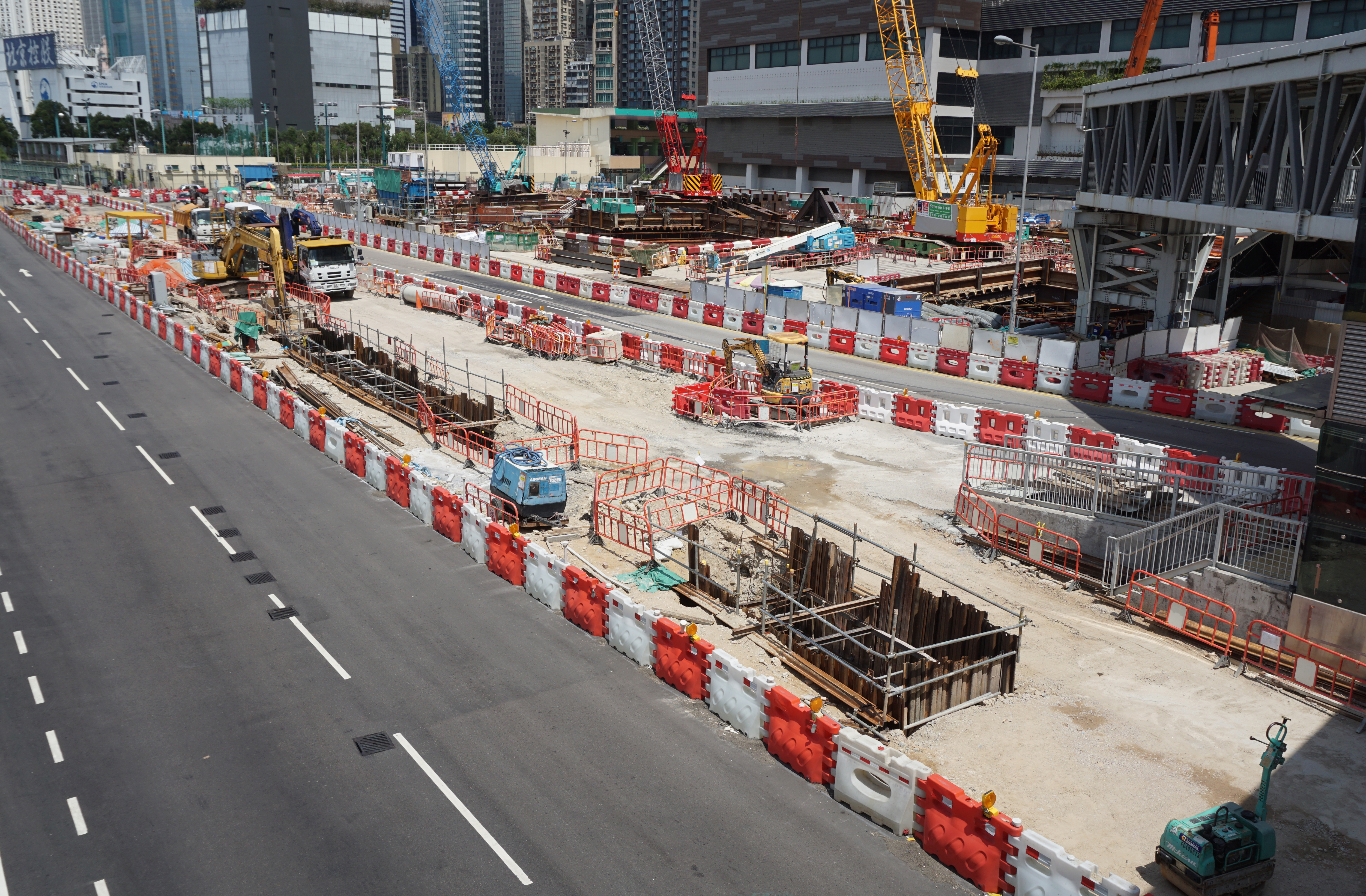 Exhibition Station in Wan Chai, Hong Kong.